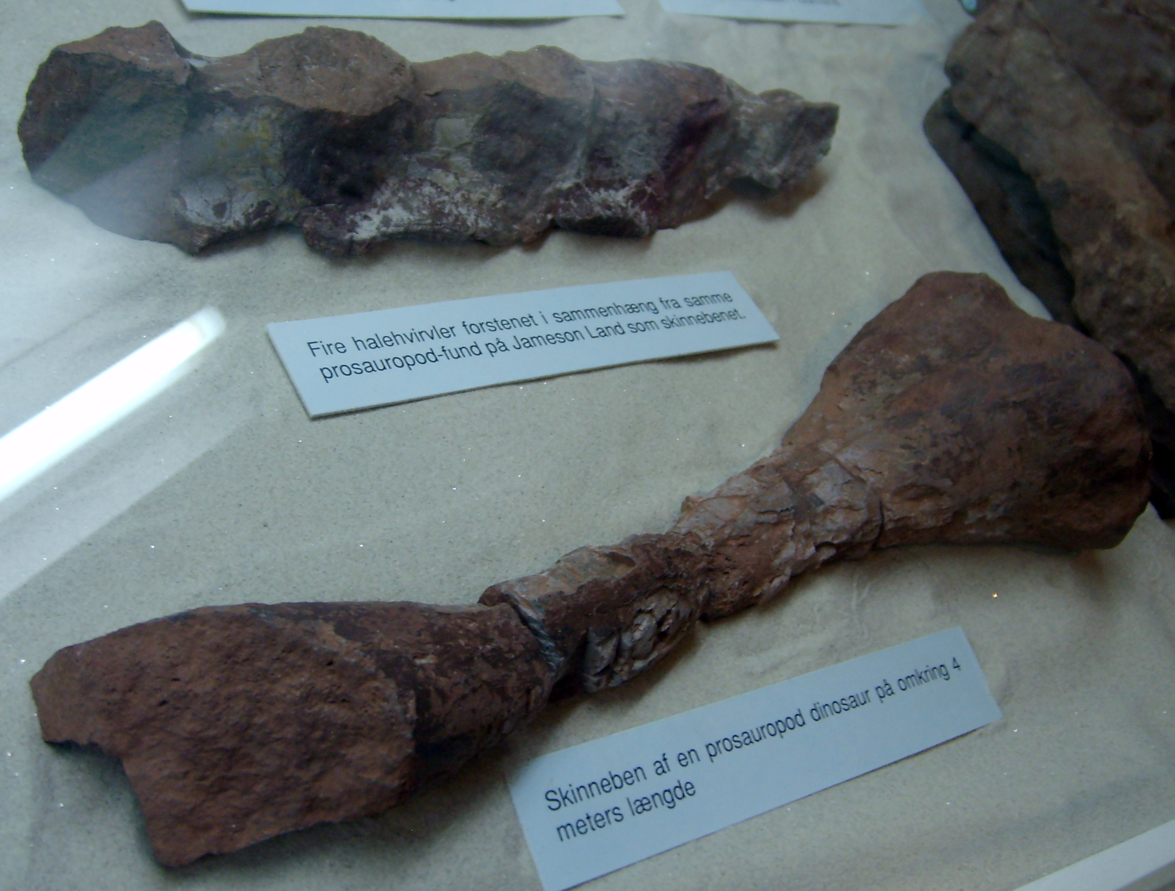 Tail vertebrae and tibia of a 4 meter long prosauropod (has sometimes been assigned to Plateosaurus) dinosaur from Jameson Land, Greenland, at the Geological Museum in Copenhagen.